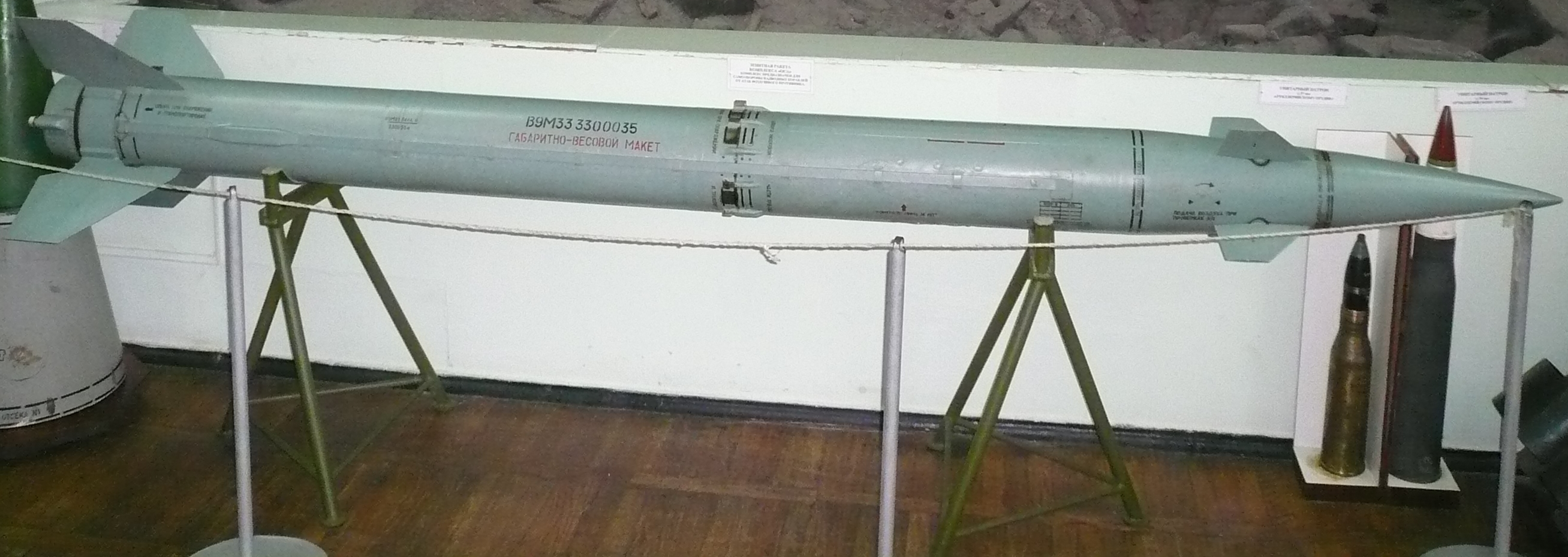 Rocket of 9K33 Osa